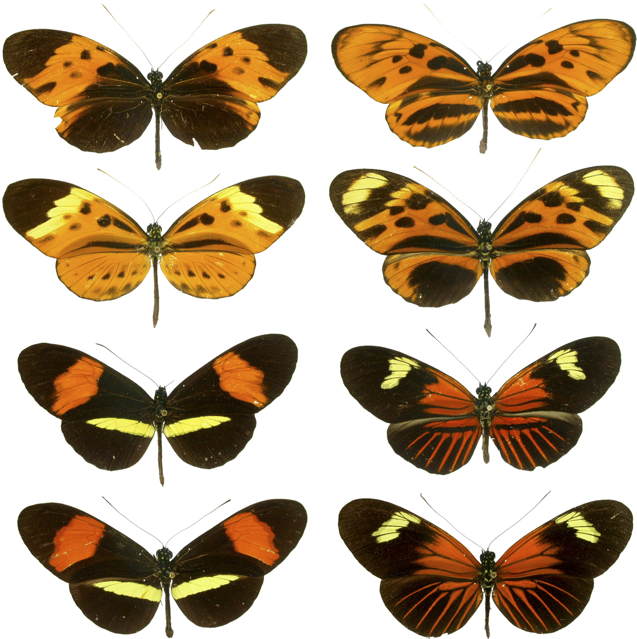 Mimicry in Butterflies Is Seen here on These Classic “Plates” Showing Four Forms of H. numata, Two Forms of H. melpomene, and the Two Corresponding Mimicking Forms of H. erato. This highlights the diversity of patterns as well as the mimicry associations, which are found to be largely controlled by a shared genetic locus [15].